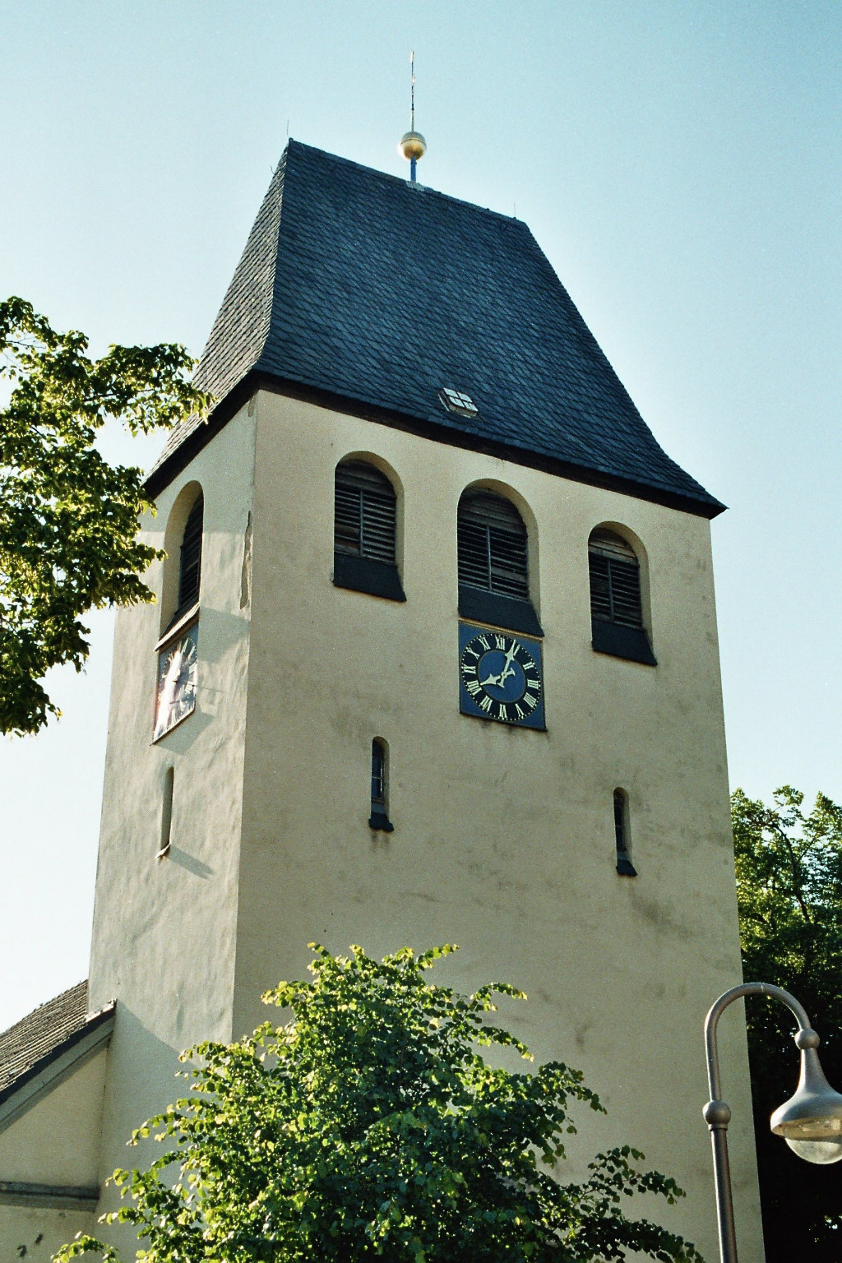 Westeregeln, the Saint James the Greater church